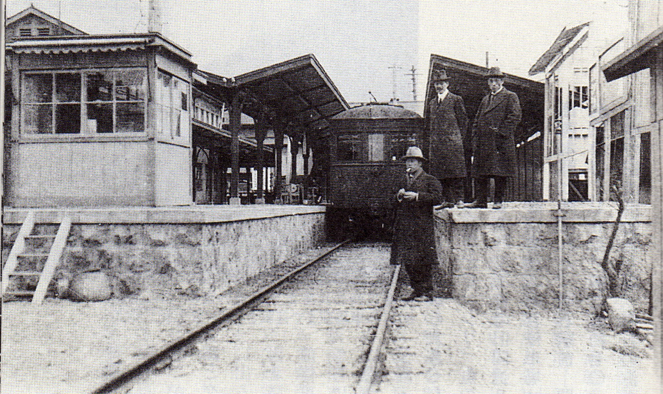 Akashi station of Kobe Himeji Electric Railway (later it merged with Hyogo Electric Railway and became current Sanyo Electric Railway)